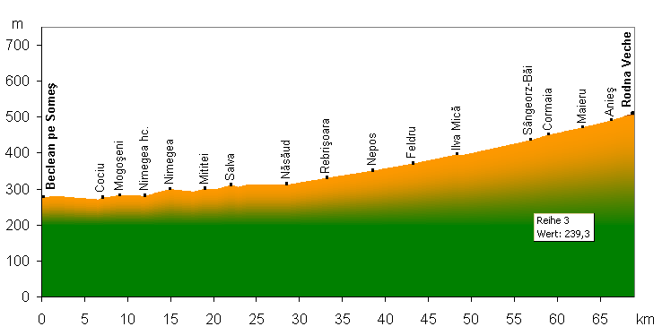 elevation profile of the railway track Beclean-Rodna